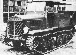 Artillery tractor T-3.